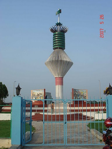 Sombhugongh Monument